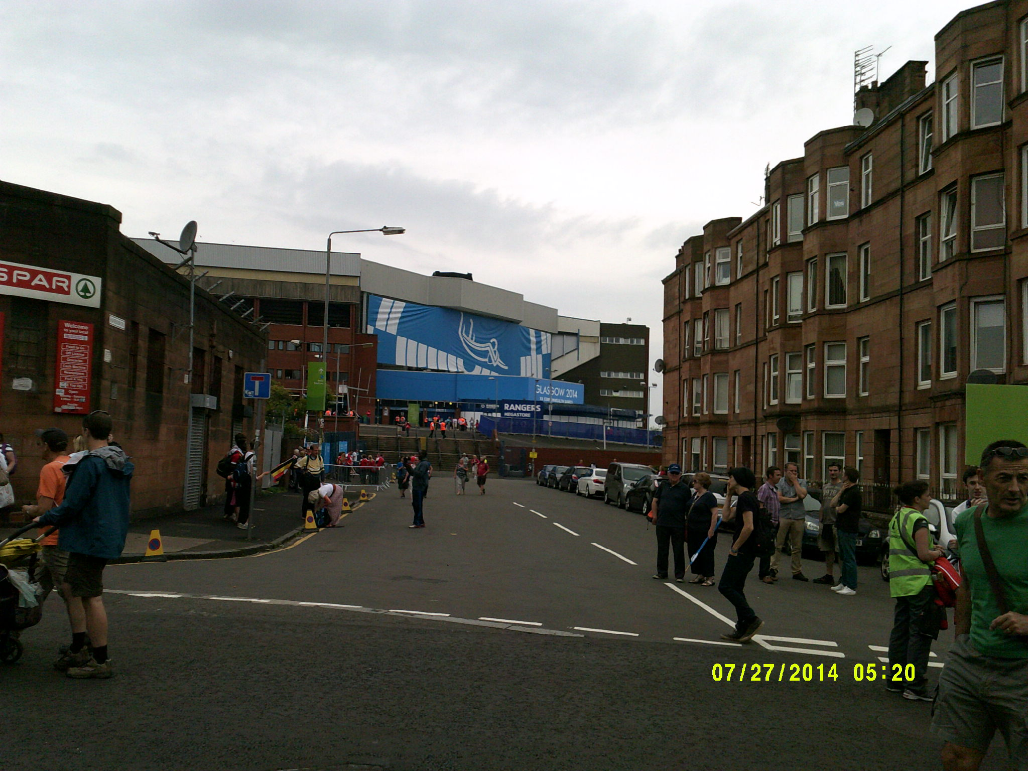 The outside of Ibrox Stadium, showing its "livery" for the Commonwealth Games rugby sevens